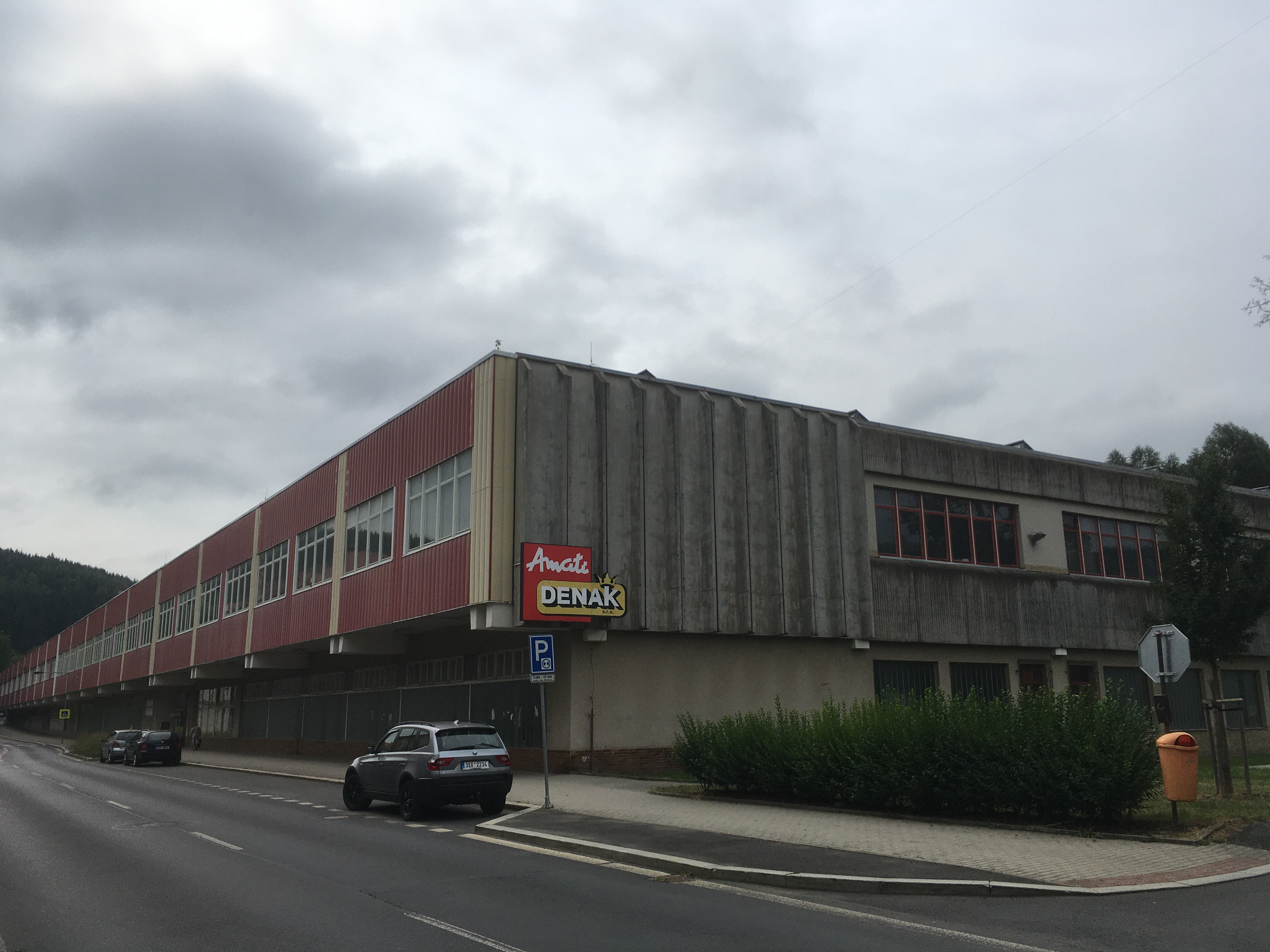 North view of Amati-Denak factory building (defunct), building used by Röchling Techplast as of 2020 Address: Dukelská 44, 358 01 Kraslice